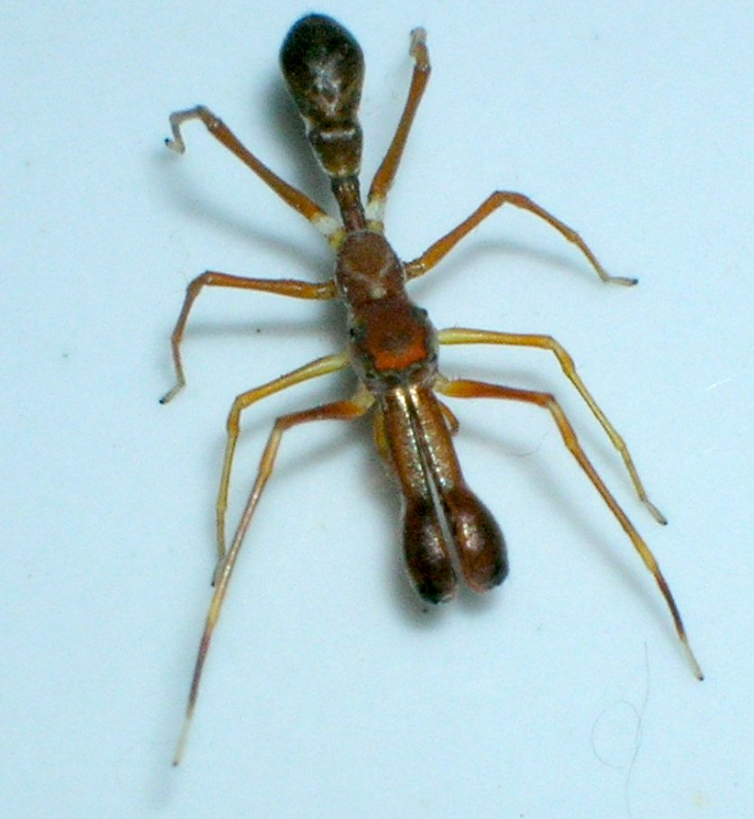 An Antmimicking spider, Found this one in my office toilet.